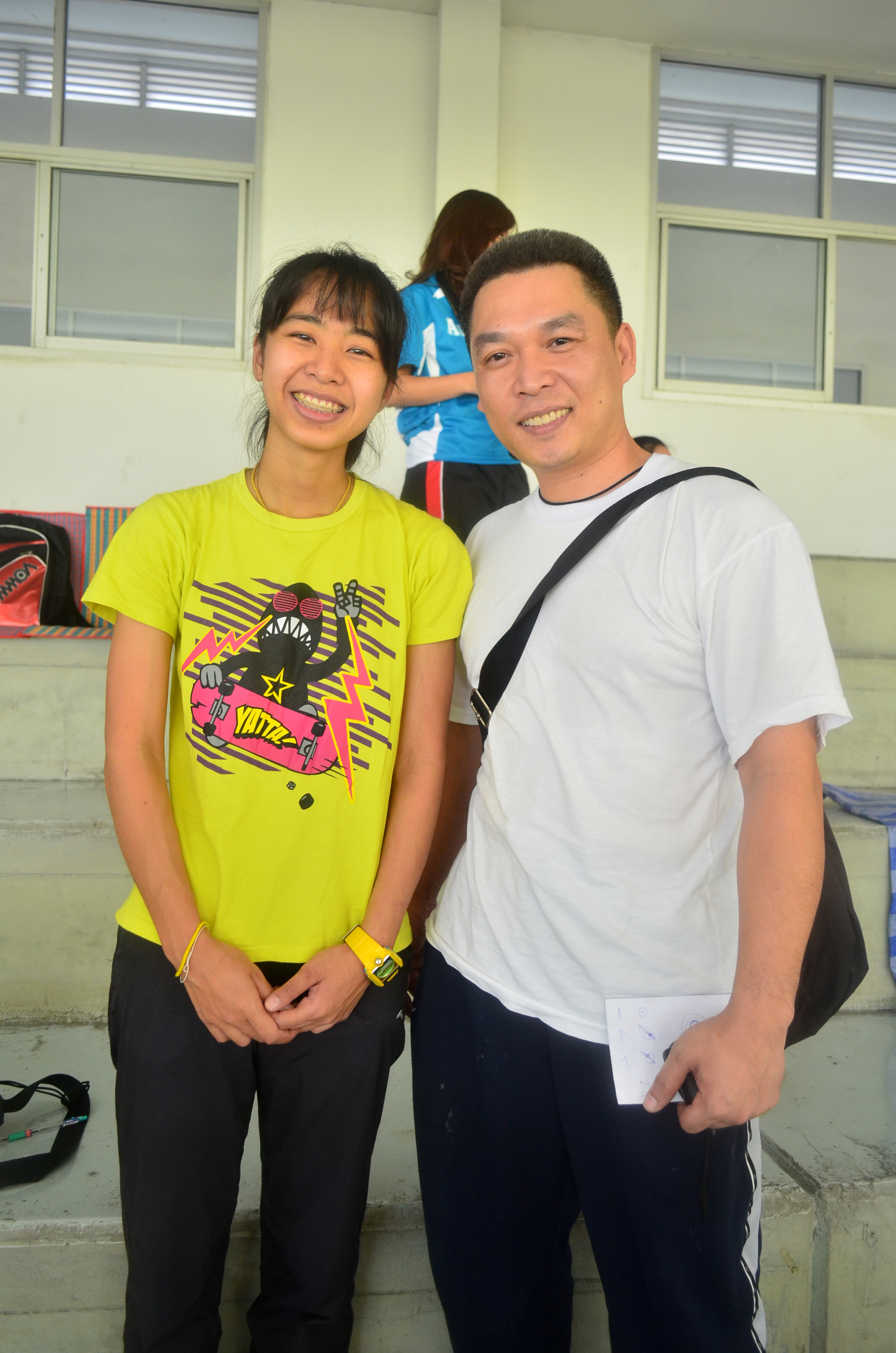 Thanyalak Chotphibunsin and Tevarit Majchacheep